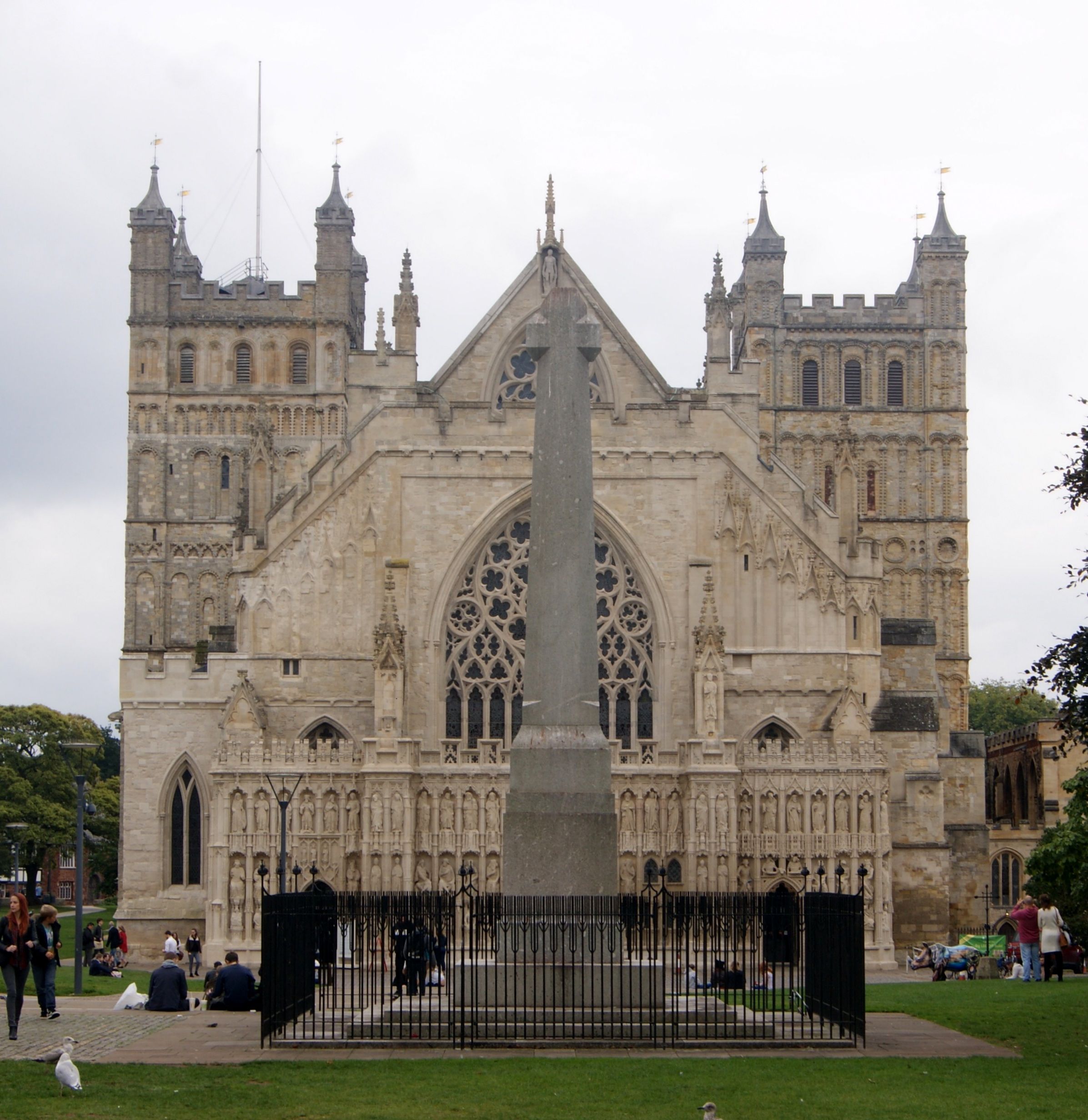 Devon County War Memorial from behind, taken from Cathedral Close, with Exeter Cathedral in the background